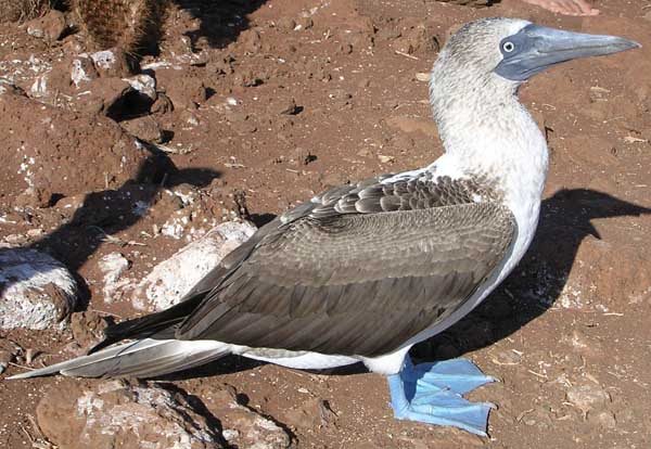 Blue-footed booby (Sula nebouxii) in the Galápagos Islands. (ca: Mascarell camablau; es: Piquero de patas azules)